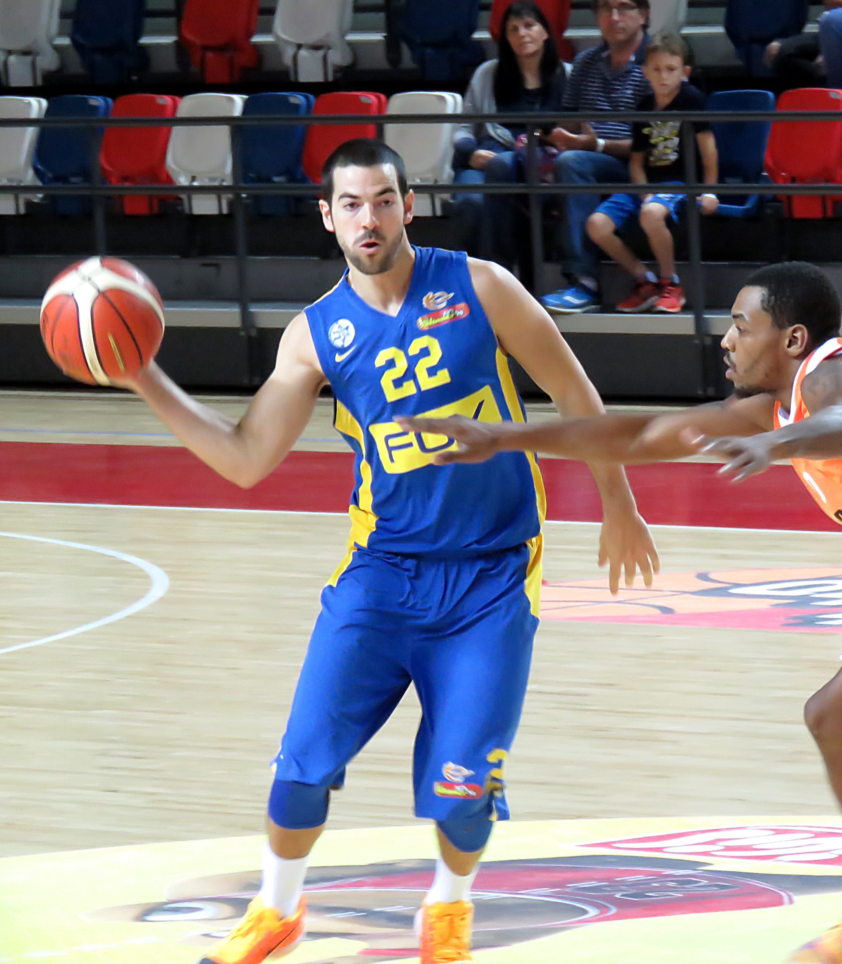 Maccabi Rishon LeZion vs. Maccabi Tel Aviv B.C., 26 September, 2015